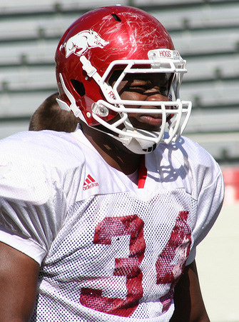 Photo of Jerry Franklin from Arkansas's Spring practices.